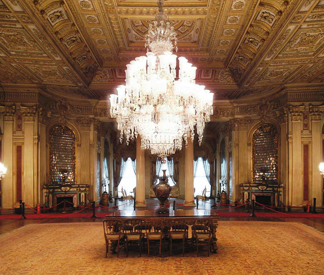 The Ambassadors' Hall (Süfera Salonu) in Dolmabahçe Palace in Istanbul. (#7 on the tour)